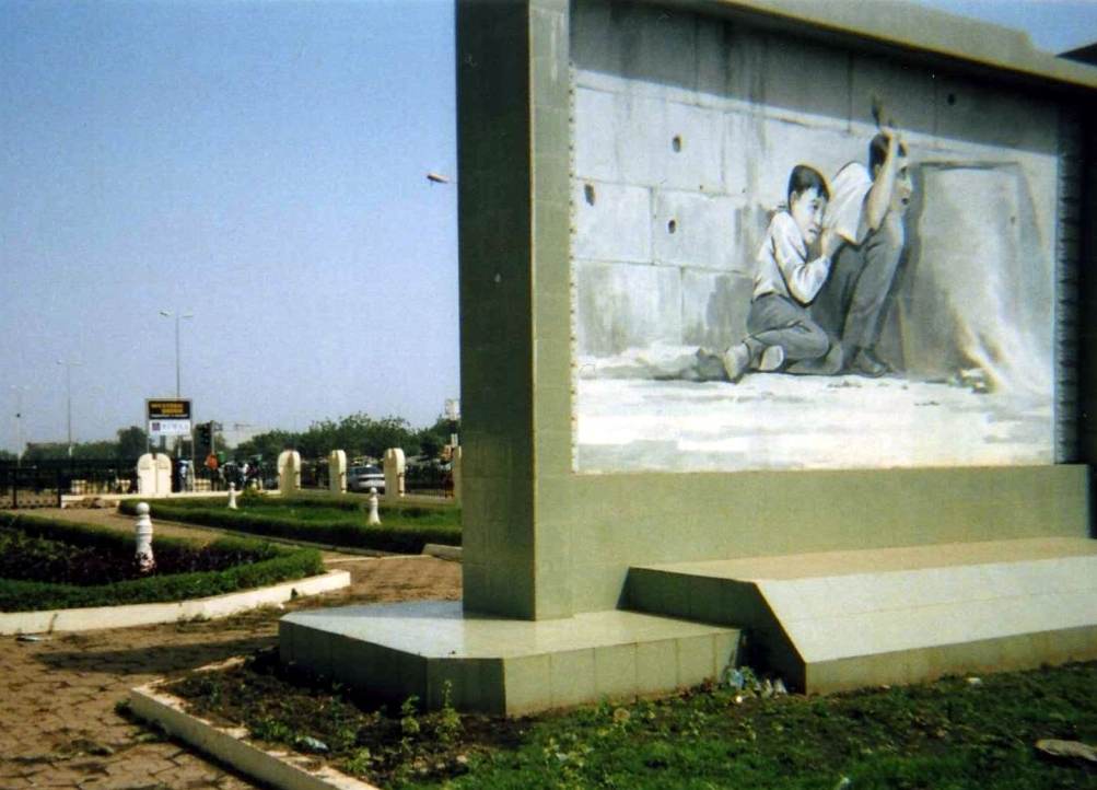 Avenue Al Qoods in central Bamako, Mali. The image in the foreground is of Jamal and Muhammad al-Durrah.